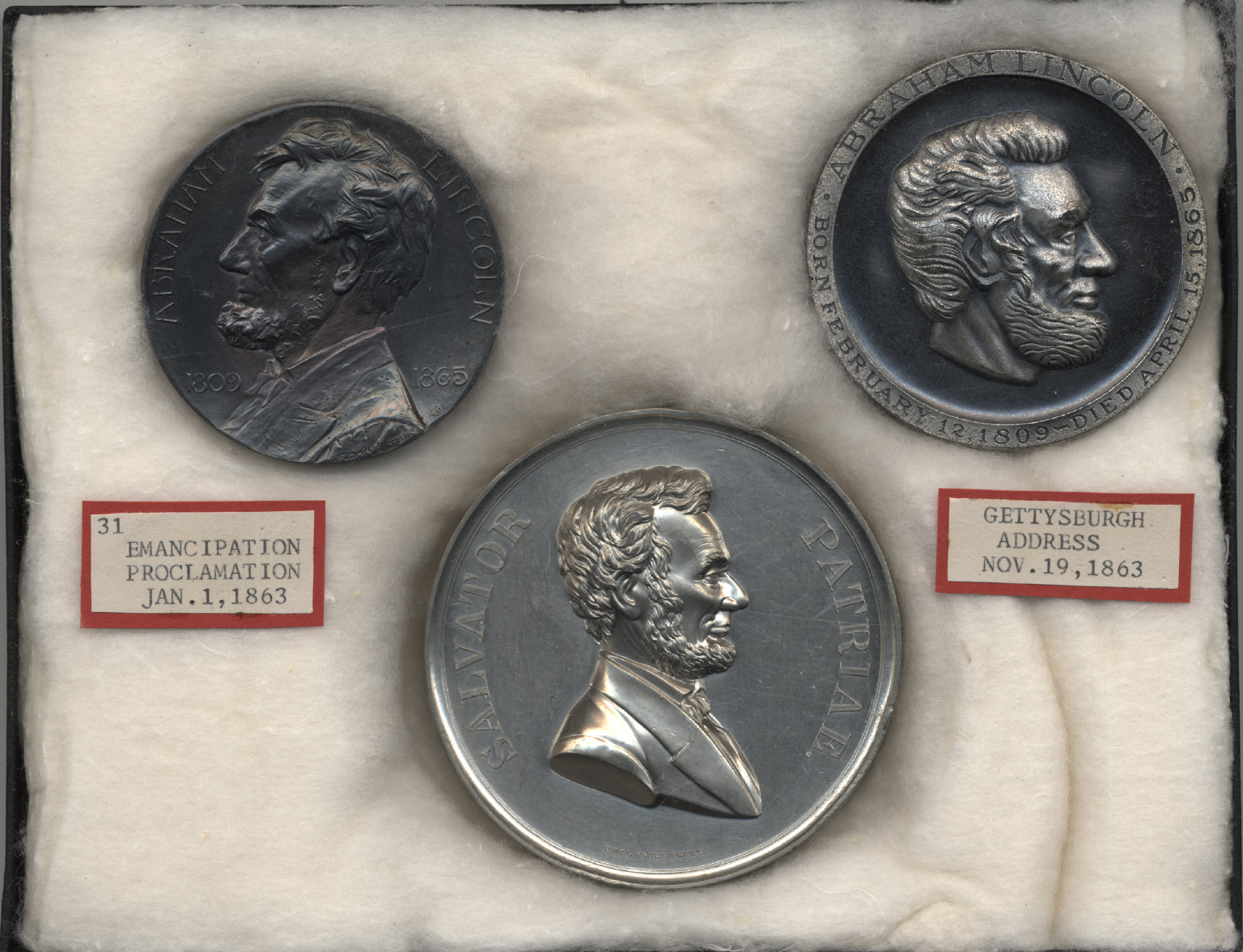 Collection: Cornell University Collection of Political Americana, Cornell University Library Repository: Susan H. Douglas Political Americana Collection, #2214 Rare & Manuscript Collections, Cornell University Library, Cornell University Title: Lincoln Commemorative Medallions, ca. 1865-1909 Political Party: Republican Date Made: ca. 1865-1909 Measurement: Mount: 6 5/8 x 8 5/8 in.; 16.8275 x 21.9075 cm Classification: Metalwork Persistent URI: There are no known U.S. copyright restrictions on this image. The digital file is owned by the Cornell University Library which is making it freely available with the request that, when possible, the Library be credited as its source.